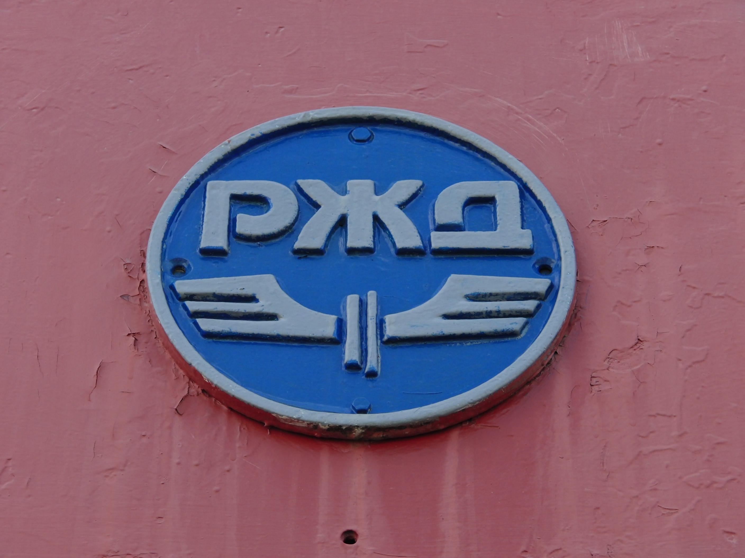 CHS4 (ЧС4) 25 electric locomotive, Russian Railways logo